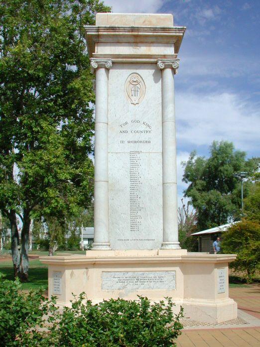 Charleville War Memorial (2005)